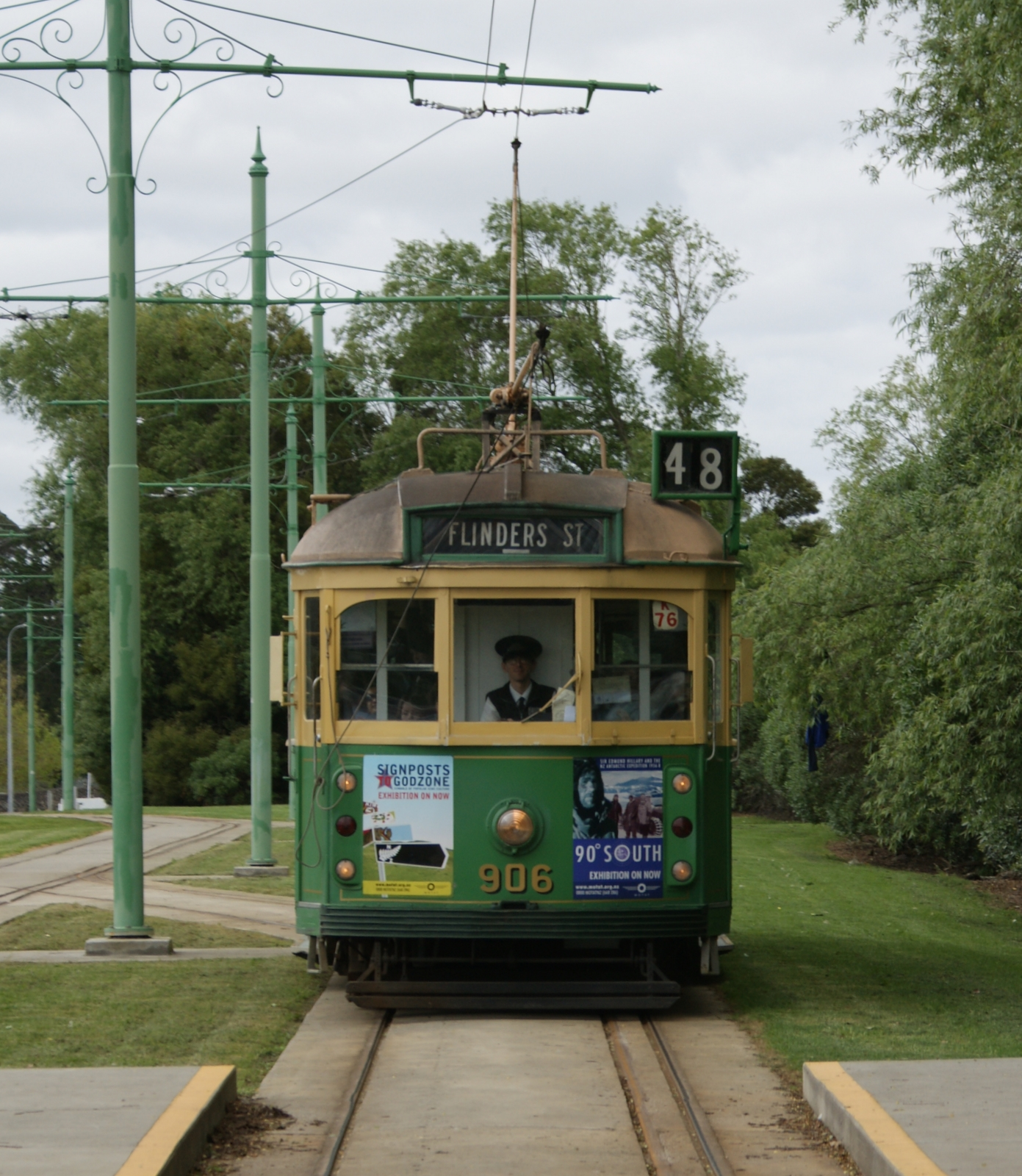 MOTAT Tram